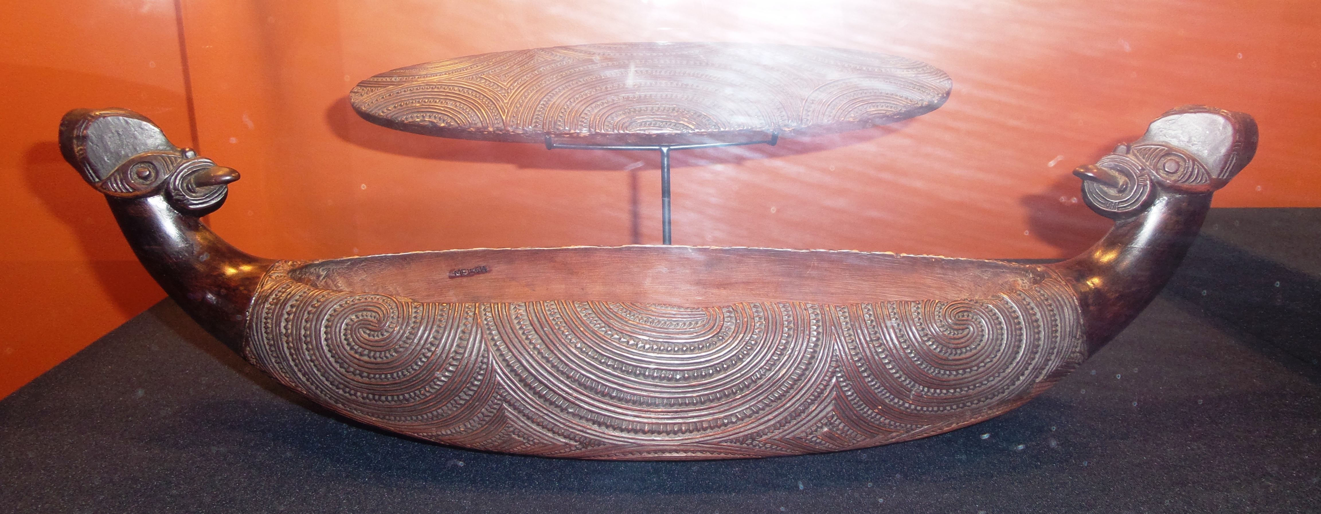 A waka huia (treasure box) in Te Papa, Museum of New Zealand in Wellington.